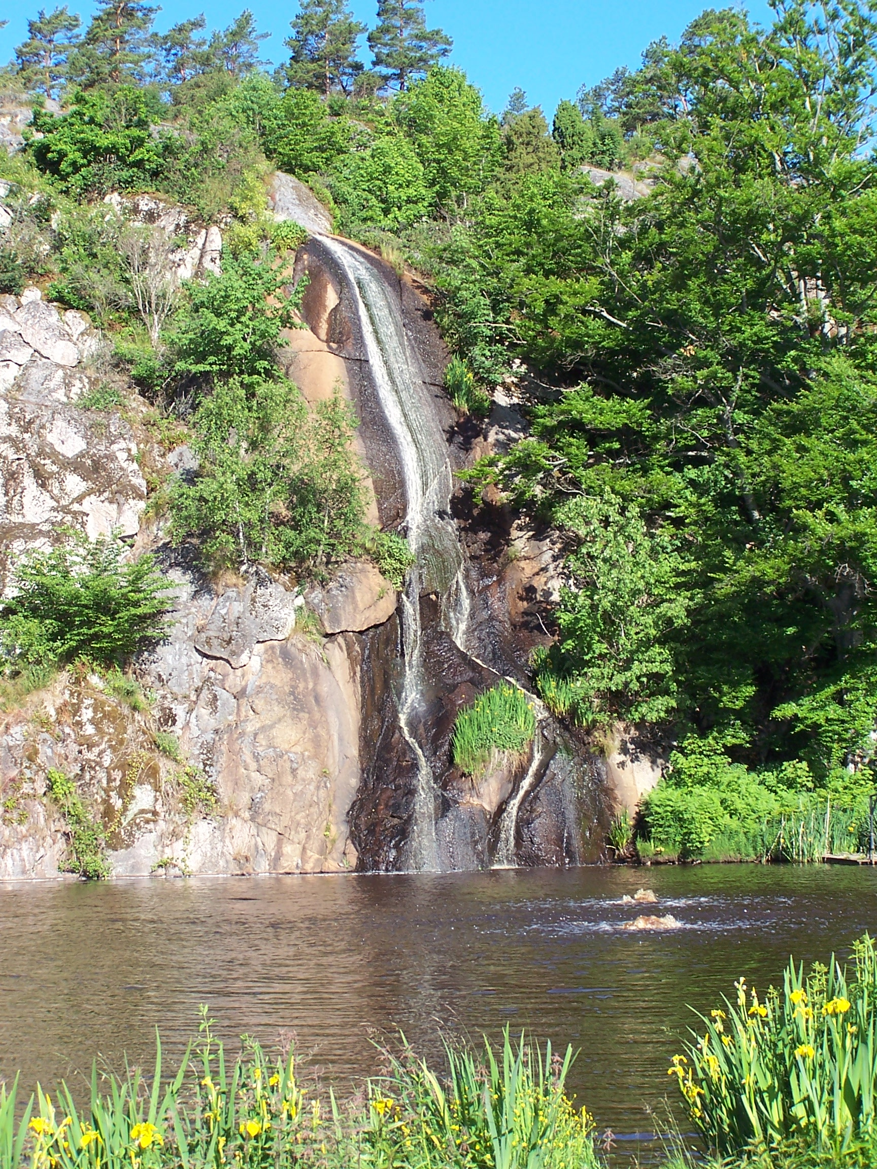 Water Fall, Ronneby Brunnspark